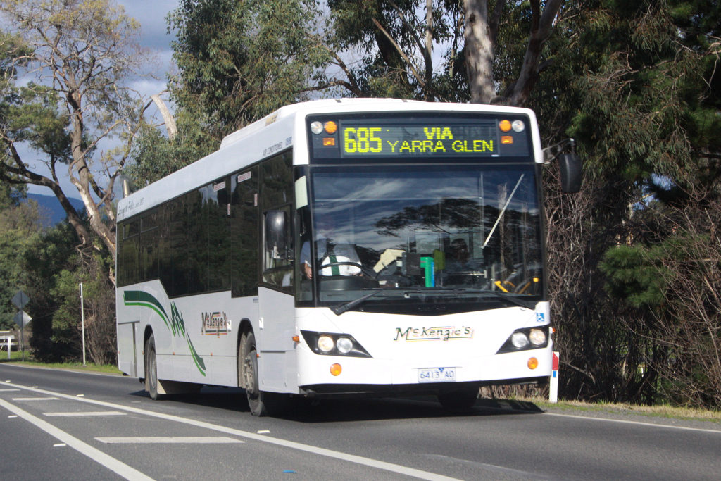 McKenzie's Tourist Services Custom Coaches CB60 EvoII bodied MAN 18.280 (6413 AO) on route 685 outside Healesville, Victoria, Australia.